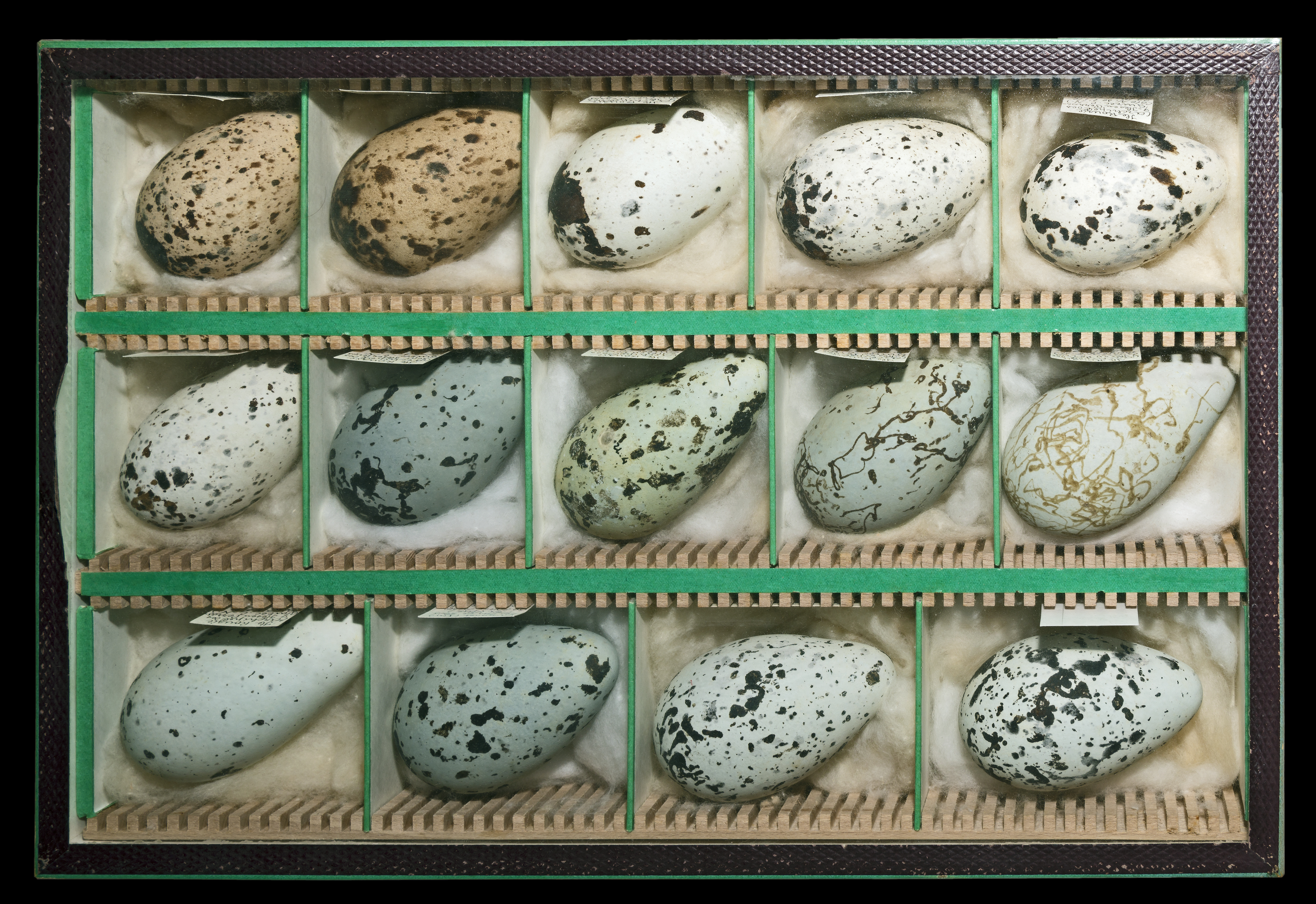 Eggs of Common murre. Collection of Jacques Perrin de Brichambaut.